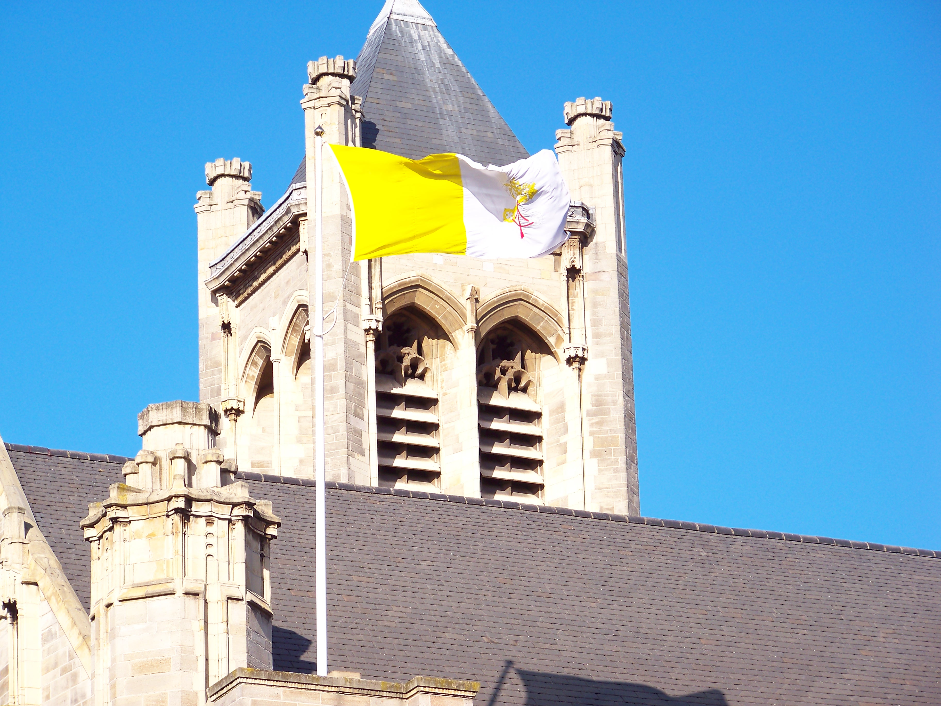 The flag of the Holy See flying atop St Anne's Cathedral in Leeds during the exhibition of the relics of St Therese of Lisieux. Taken on the afternoon of Saturday the 3rd of October 2009.